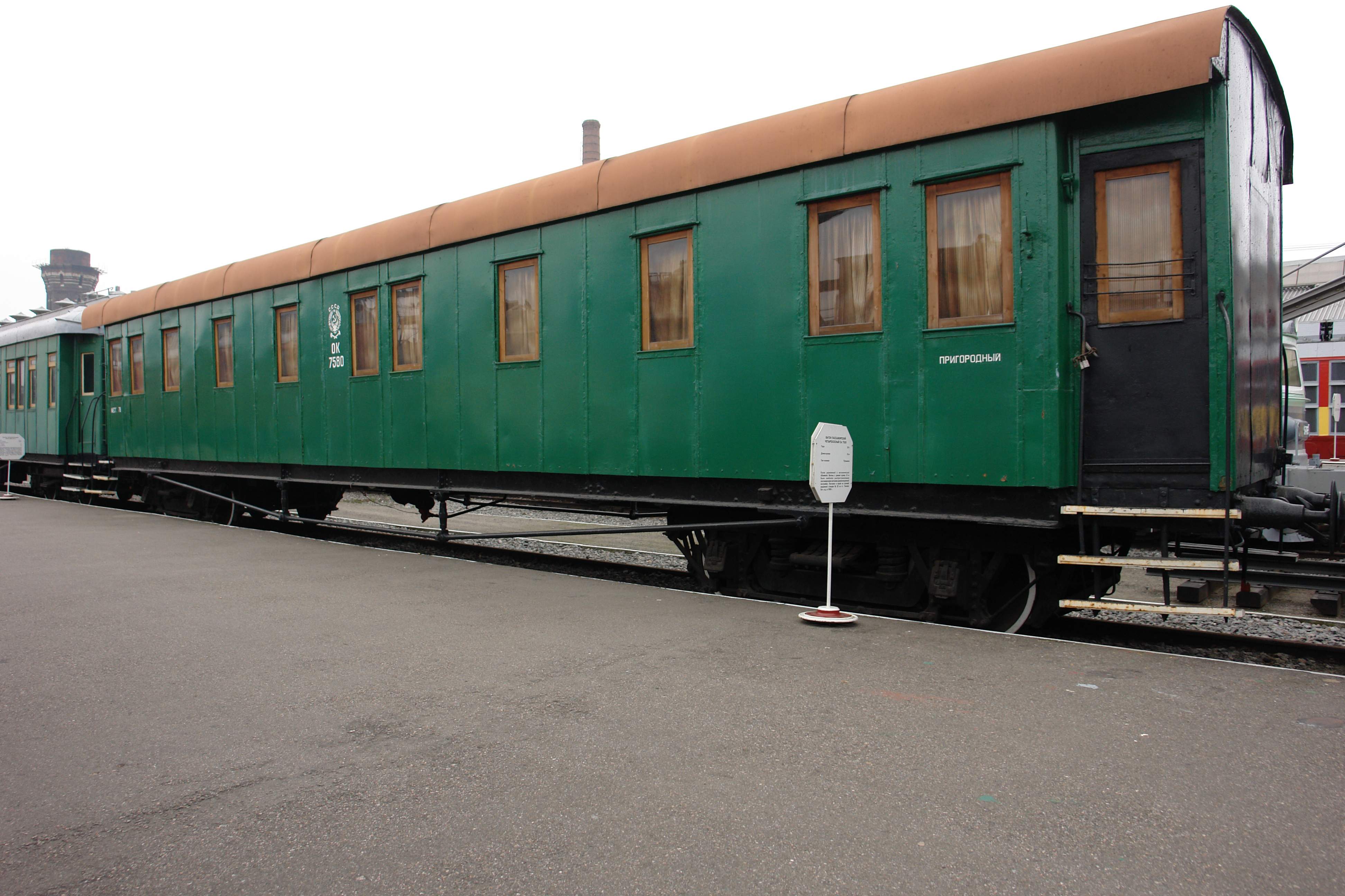 Passenger 4-axles coach OK 7580 Weight38 t.Body length18mType of trucksPullman Wooden, metal-covered coach body. 18 m coaches were the most widespread passenger coaches of prerevolution epoch. Received by the museum from track maintenance unit No. 29 on Toksovo station (October railway) in 1996.